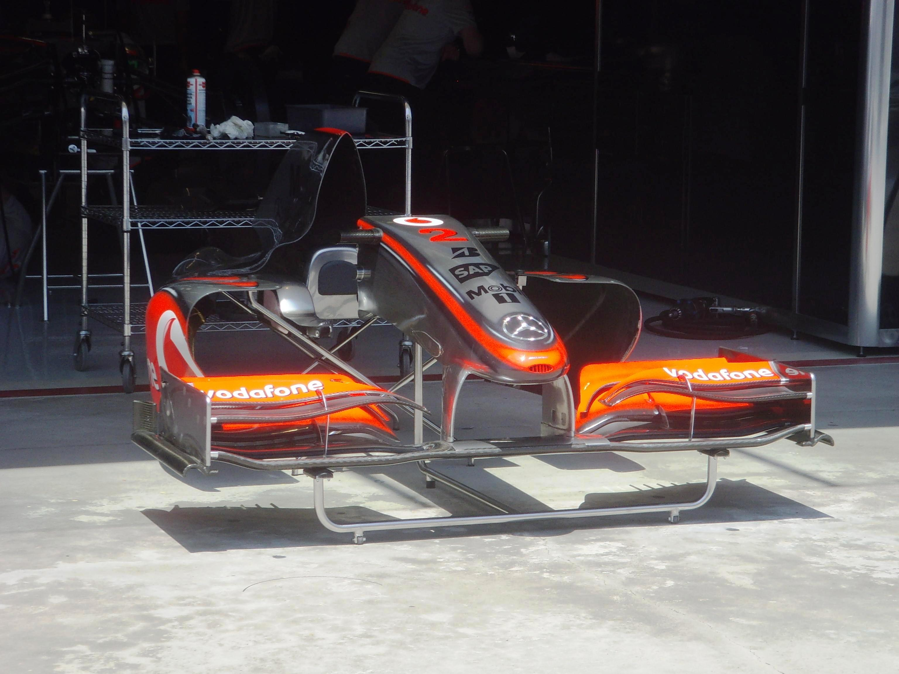 McLaren MP4-24 front wing in front of McLaren garage between two practice sessions on Friday of 2009 Turkish Grand Prix weekend.